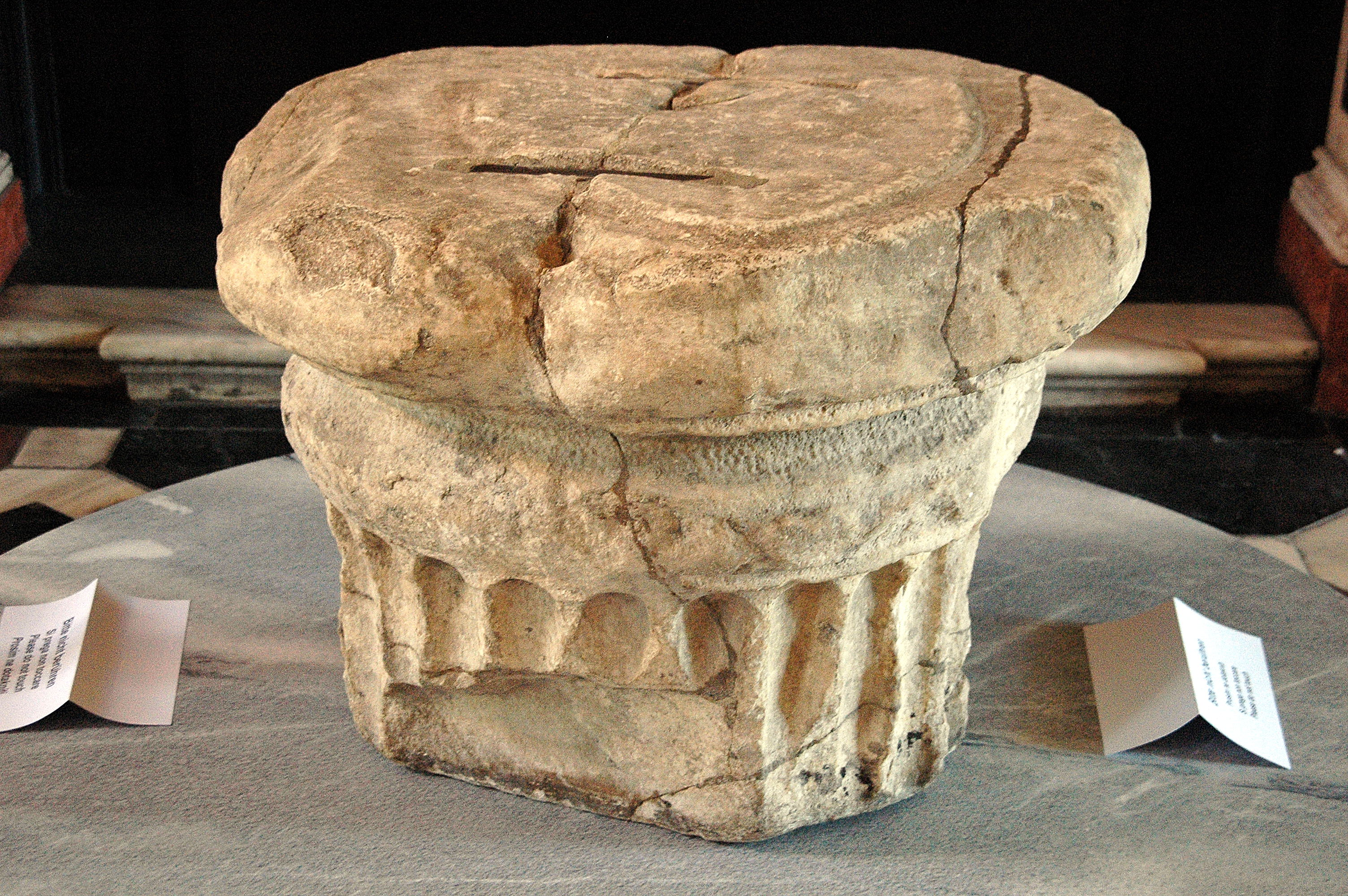 «Prince's Stone» at the Large Hall of Coats of Arms, Landhaus Klagenfurt, inner city, statutary city Klagenfurt, Carinthia, Austria, EU